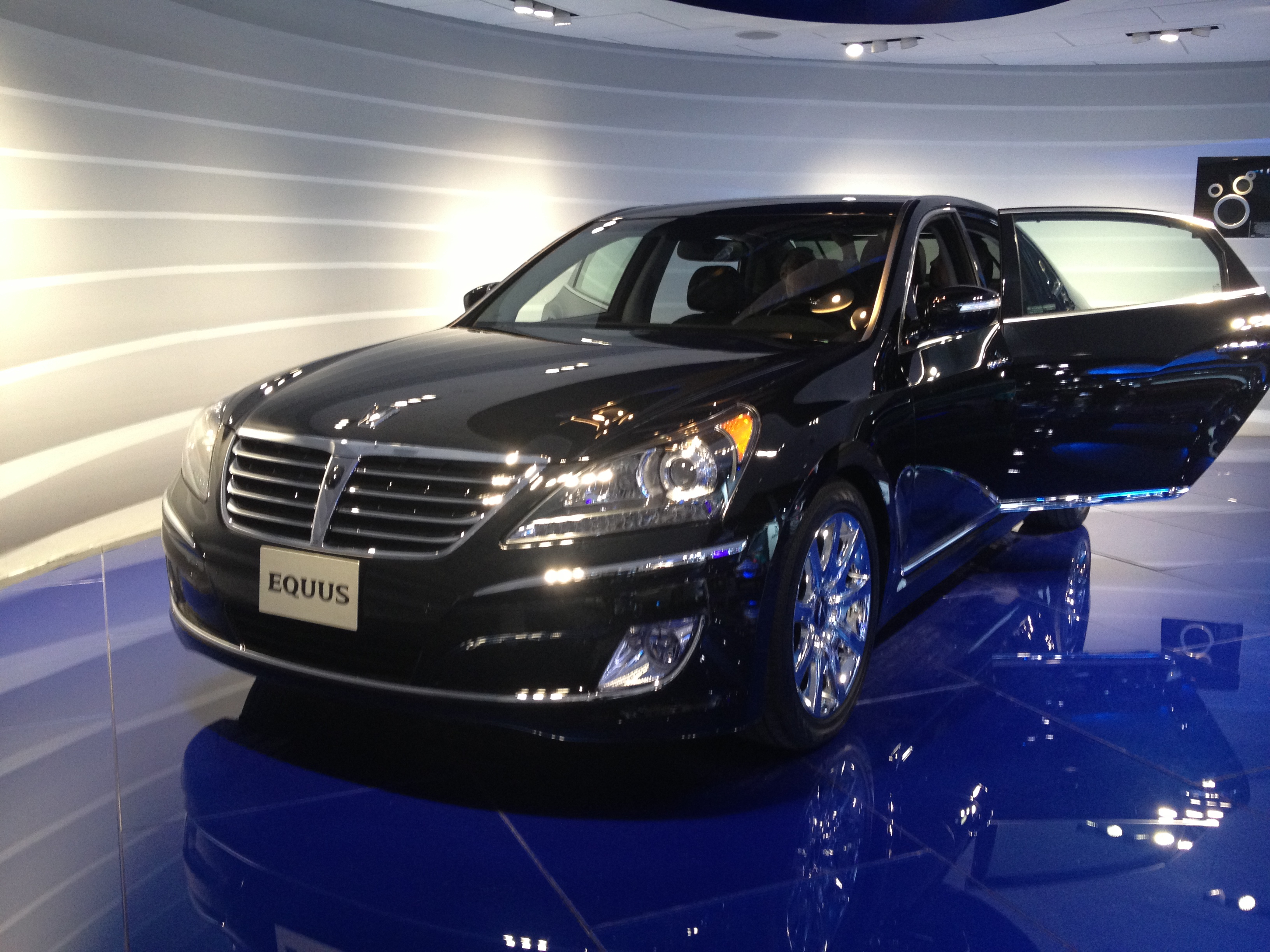 2013 North American International Auto Show Detroit, Michigan